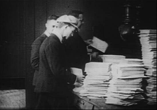 Winsor McCay's assistants stacking drawings from Gertie the Dinosaur in a still from the film